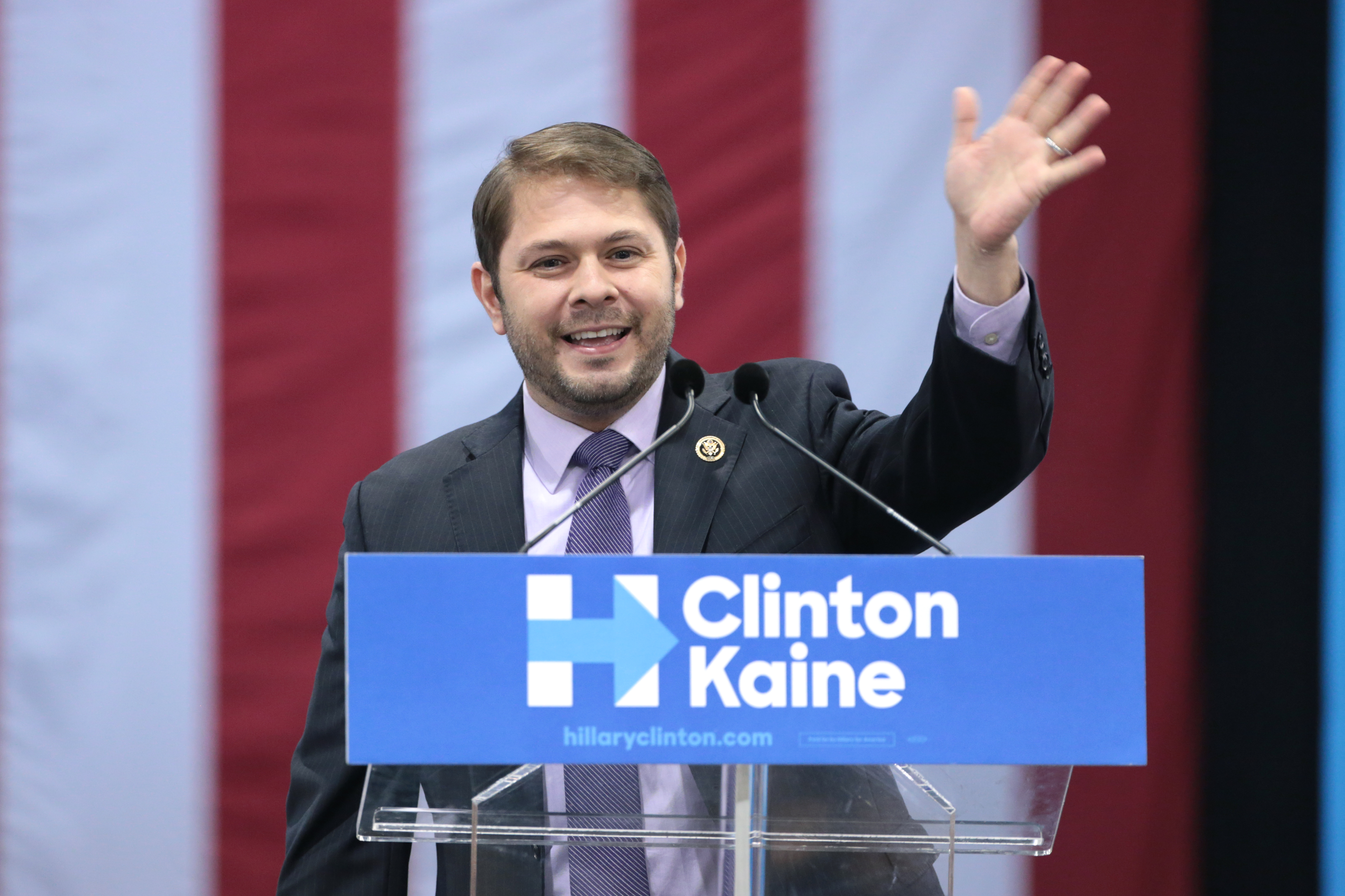 U.S. Congressman Ruben Gallego speaking with supporters of former Secretary of State Hillary Clinton at a campaign rally with First Lady of the United States Michelle Obama at the Phoenix Convention Center in Phoenix, Arizona.